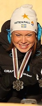 Swedish cross-country skier Emma Wikén with the silver medal she won as part of Team Sweden in the women's 4x5 km relay at the 2013 FIS Nordic World Ski Championships.